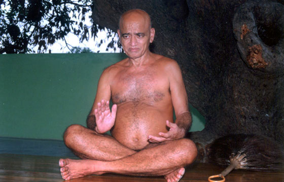 Acharya Shri 108 Vidyasagarji Maharaj